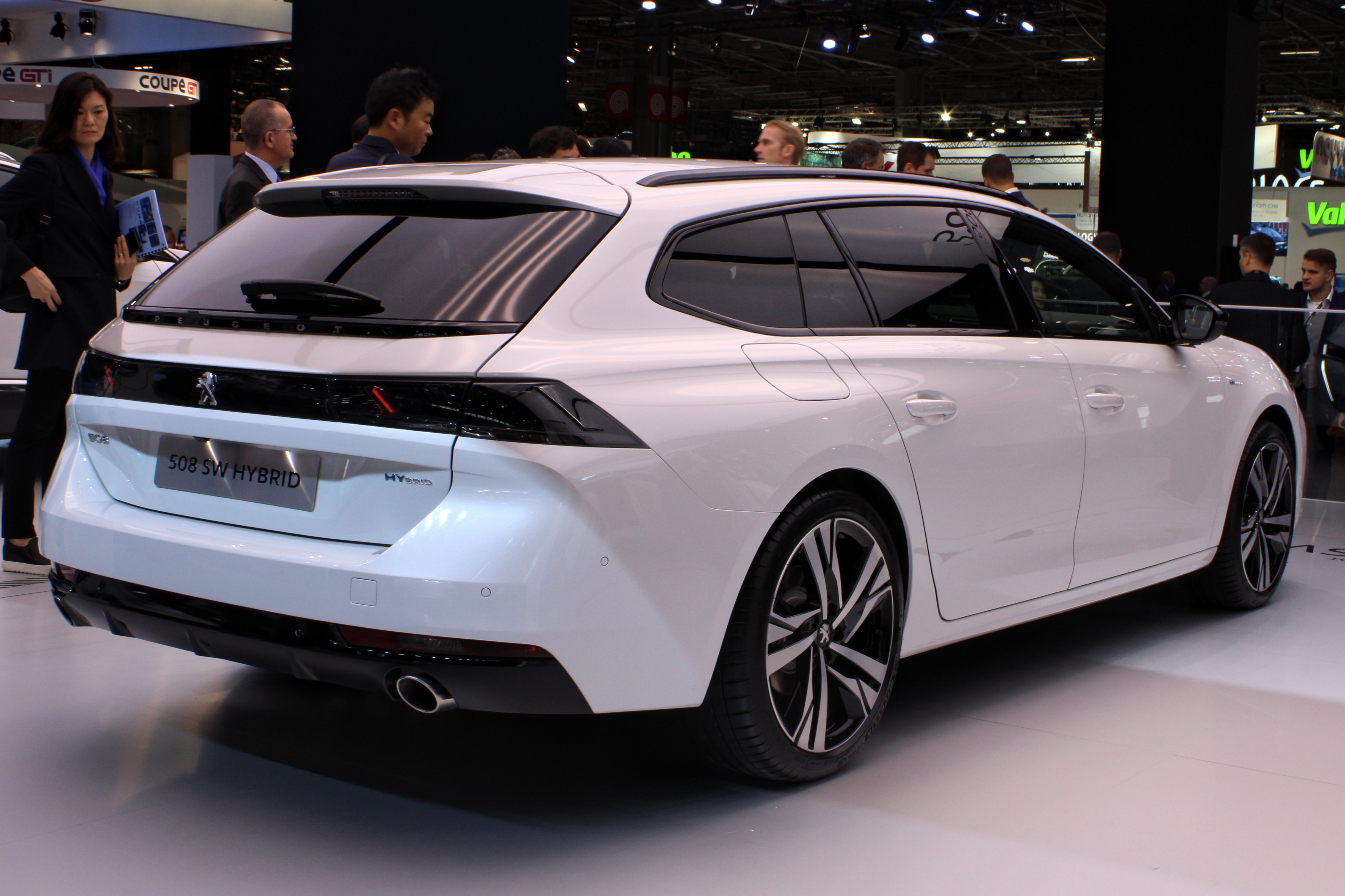 Peugeot 508 SW Hybrid at Paris Motor Show 2018